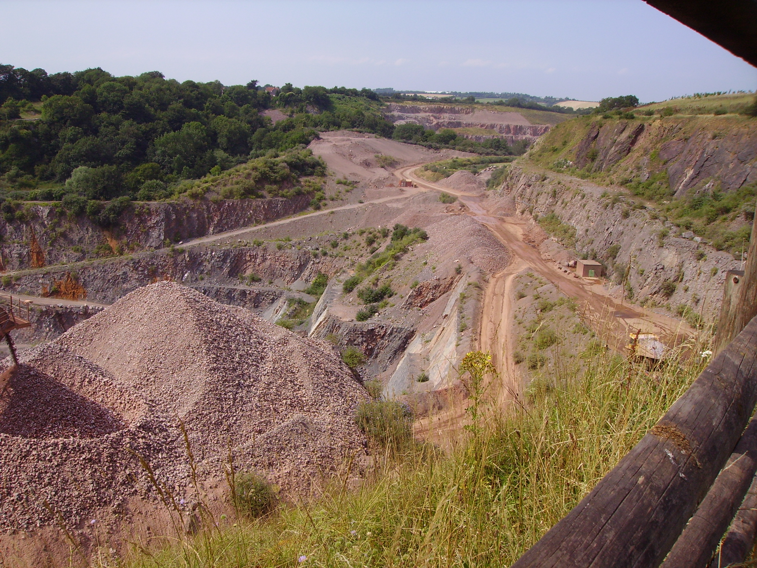 Photographer: User:Ballista